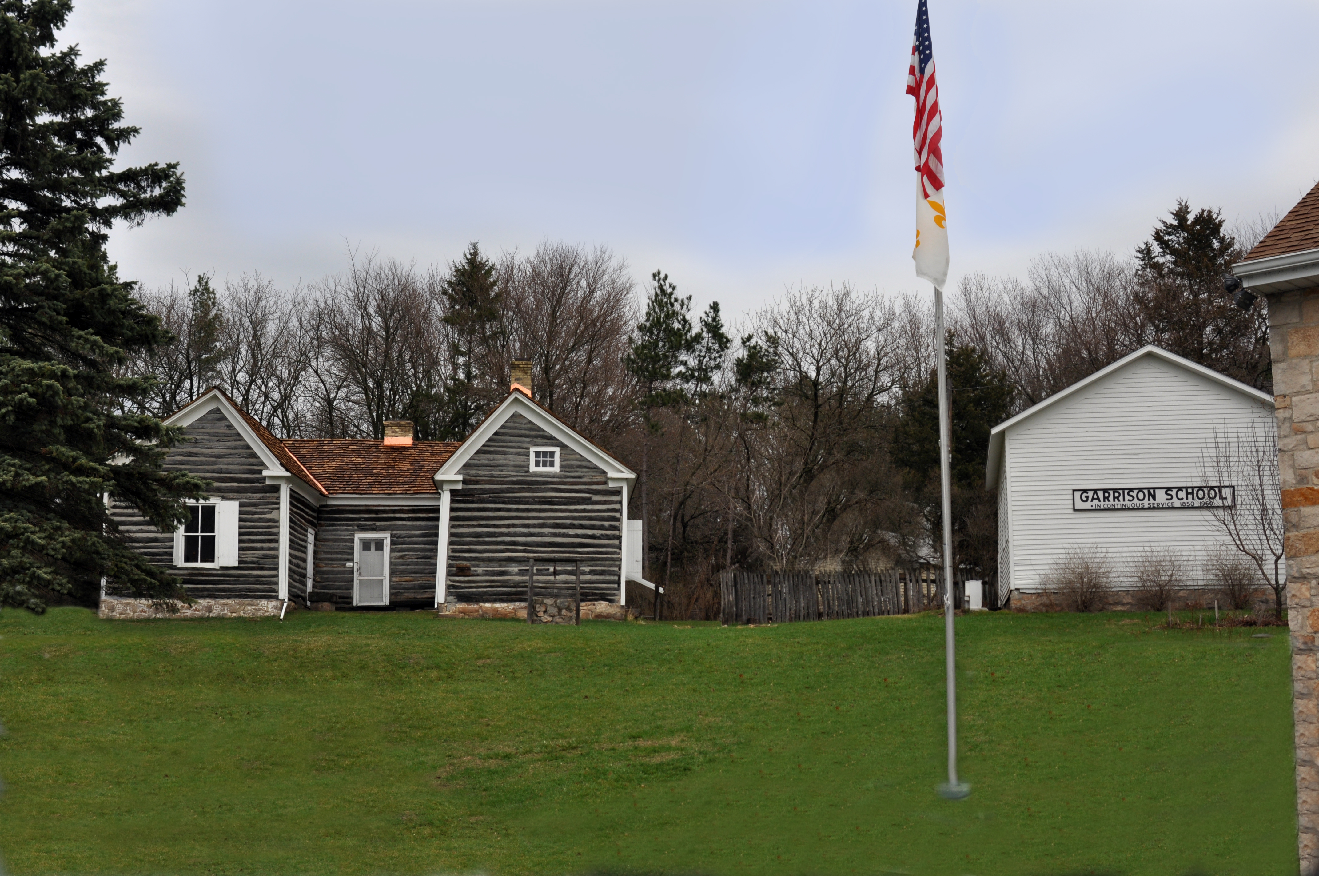 At the Fort Winnebago Surgeons Quarters Historic Site, the Log House Structure is known as the Surgeons Quarters. To the right is the Garrison School.